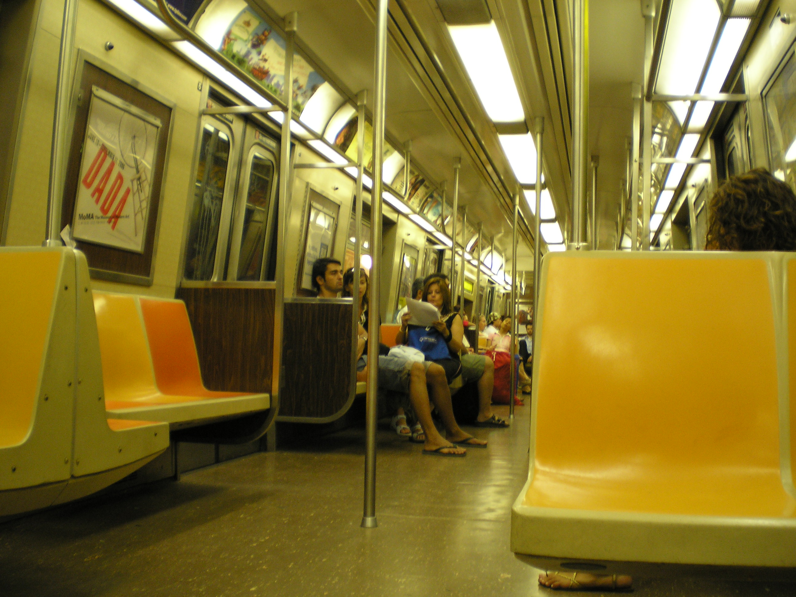 Inside of an R46 subway train, as used on the F, G, R, and V lines.